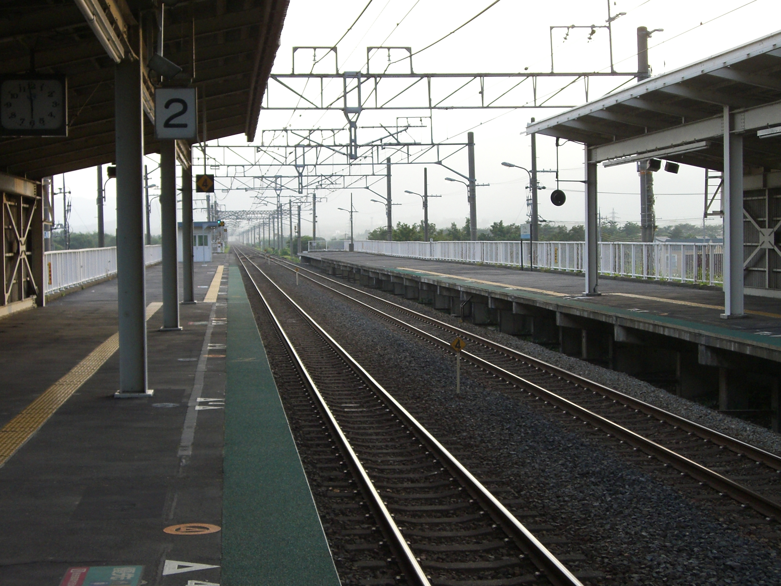 West Japan Railway Company Kosei Line, Makino Station enclosure